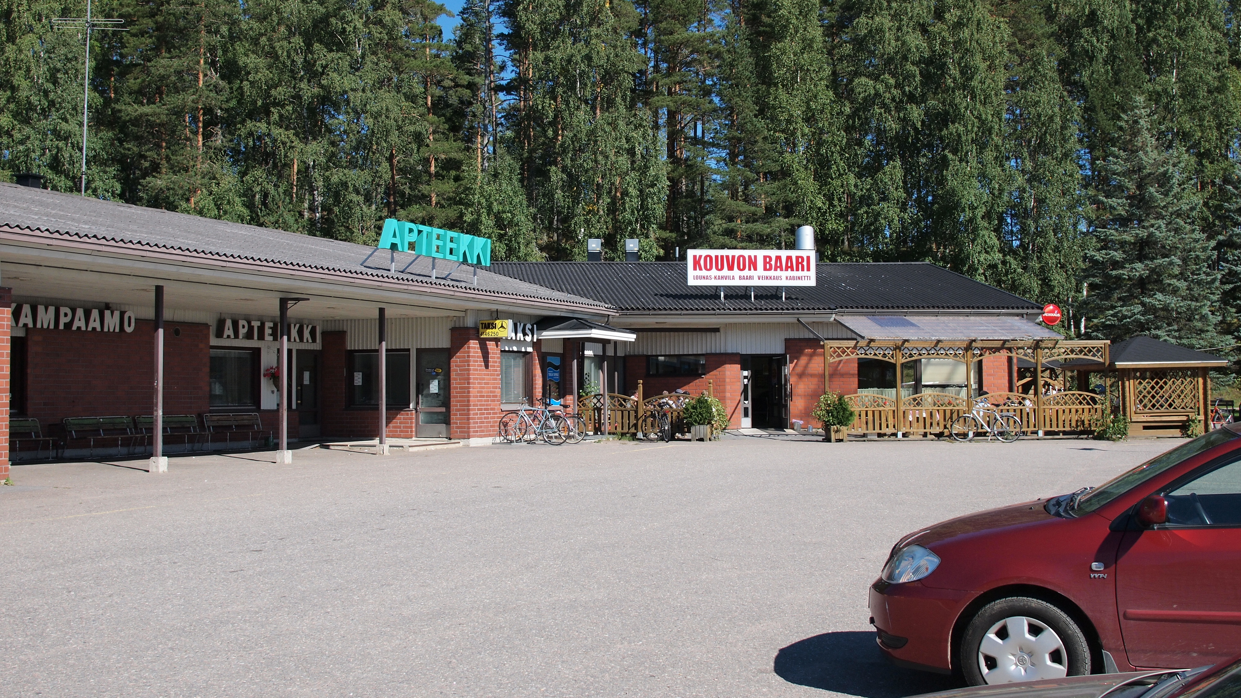 Kouvon baari, a bar in the heart of Lemi, Finland.